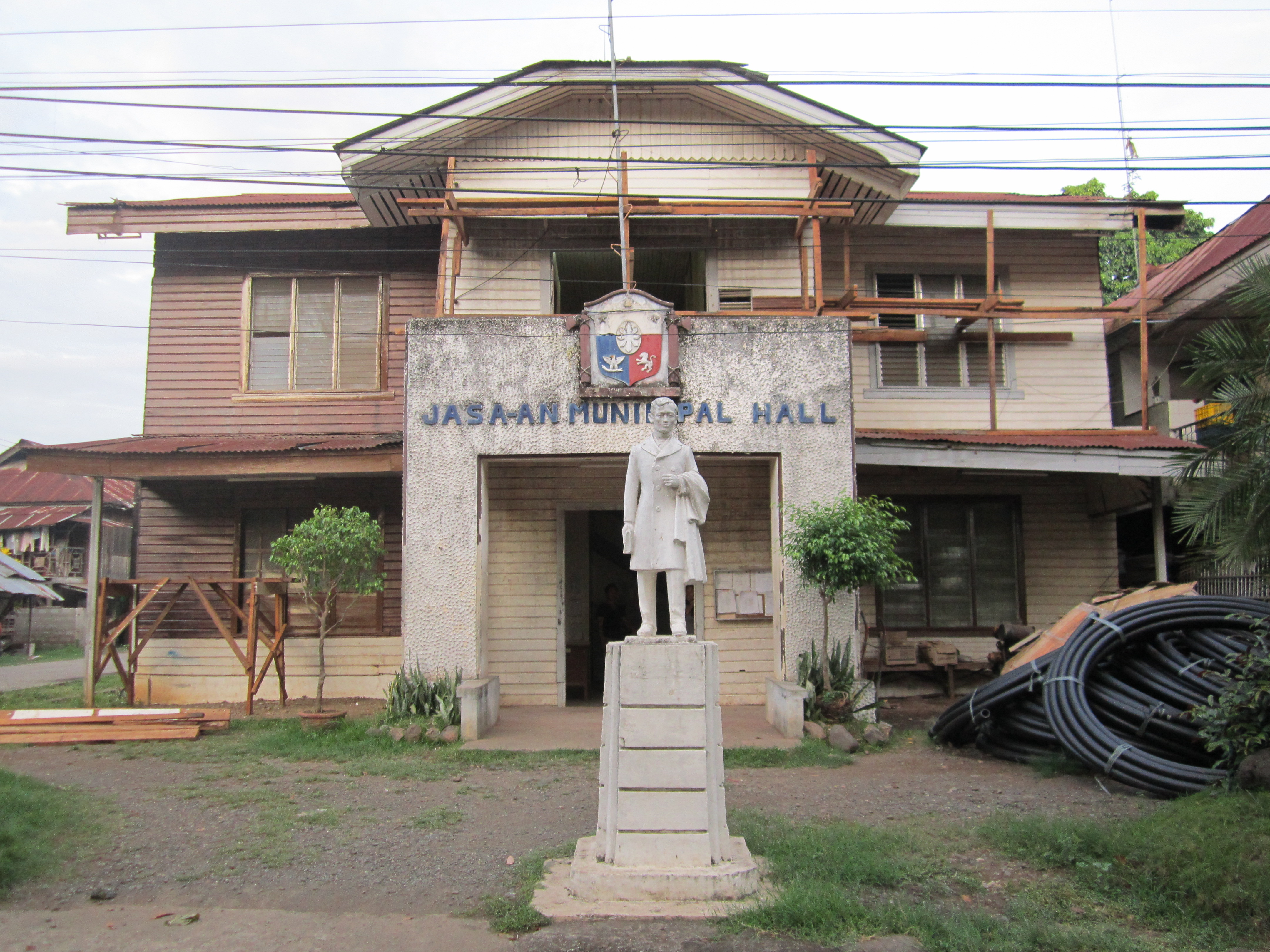 Immaculate Conception Church Features and Details. Built on 1840 by Jesuits, this church is located in Jasaan, Misamis Oriental, Philippines.